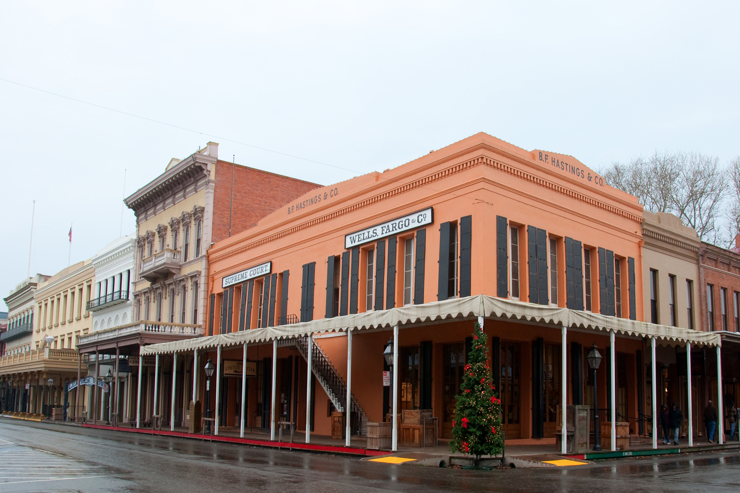 B.F. Hastings Bank Building The B. F. Hastings Building at the corner of 2nd and J Streets in Old Town Sacramento is also the home of the Wells Fargo Museum.